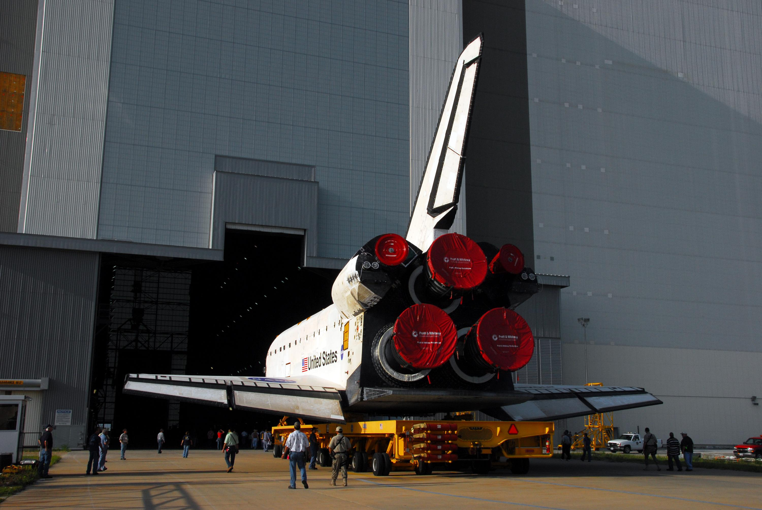 The orbiter Endeavour, atop its transporter, rolls into the gaping doorway of the Vehicle Assembly Building. In the VAB, it will be stacked with the external tank and solid rocket boosters atop the mobile launcher platform for its launch on mission STS-118.